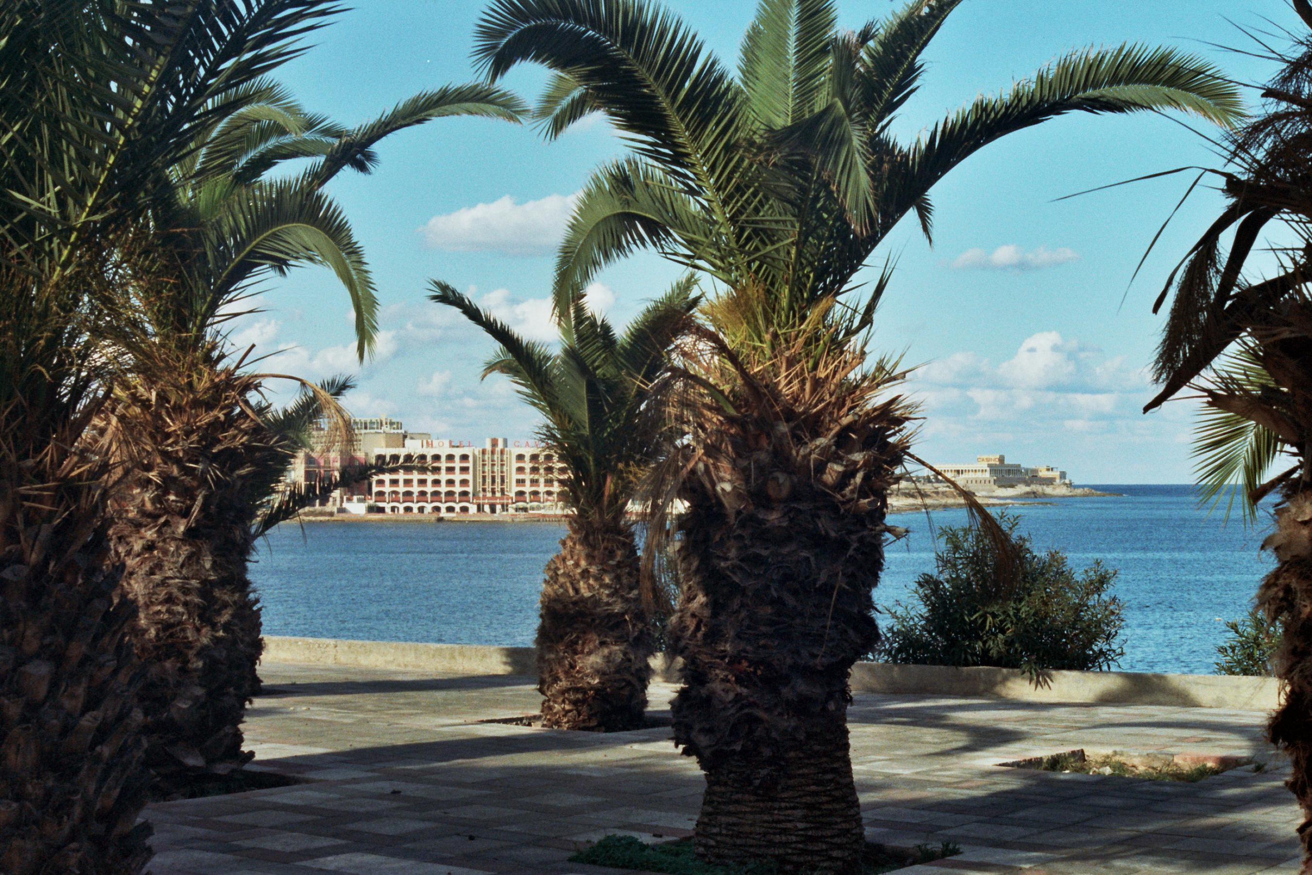 Palms at strand of Valletta on Malta, Photographer Gerhard Hund.